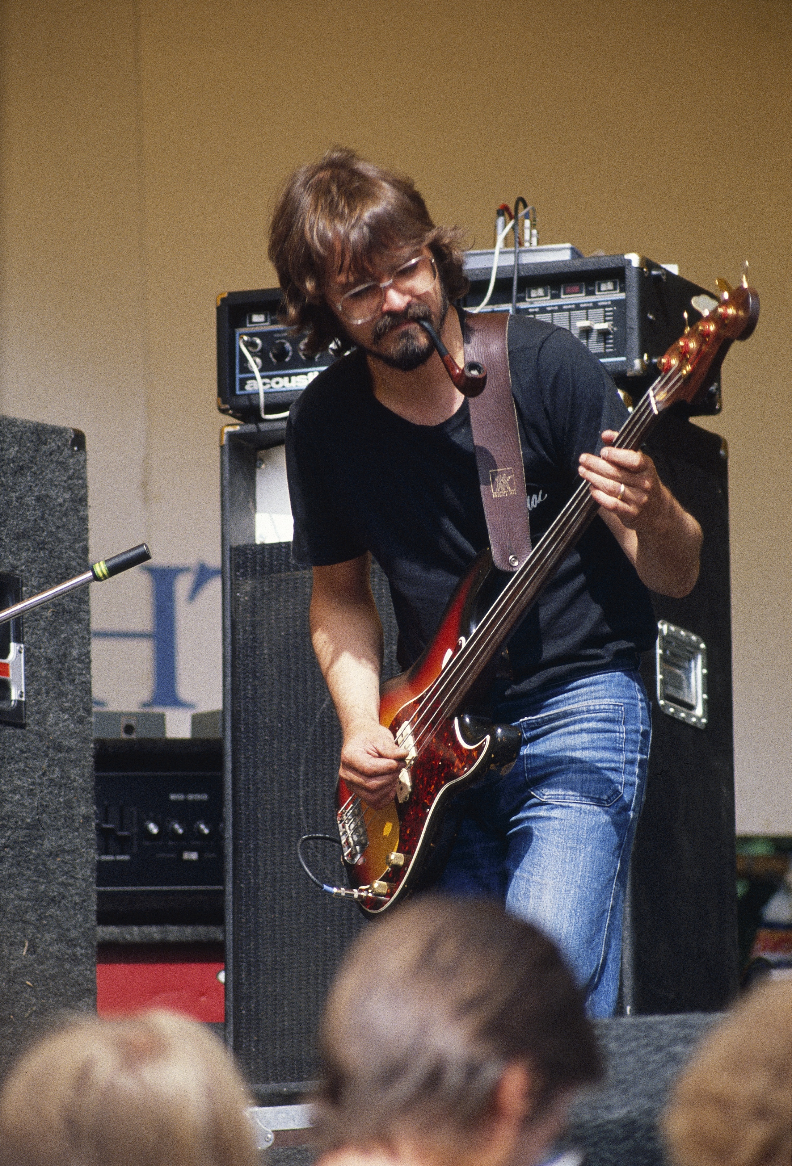 Photograph of the Finnish bass guitarist Måns Groundstroem (1949–) playing in the Tasavallan Presidentti jazz/rock group at Helsinki Festival, presumably 1983, or 1983–1989.